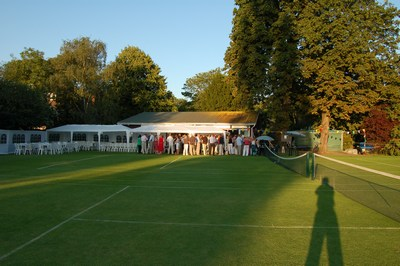 Taken by the contributor, Summer 2006.